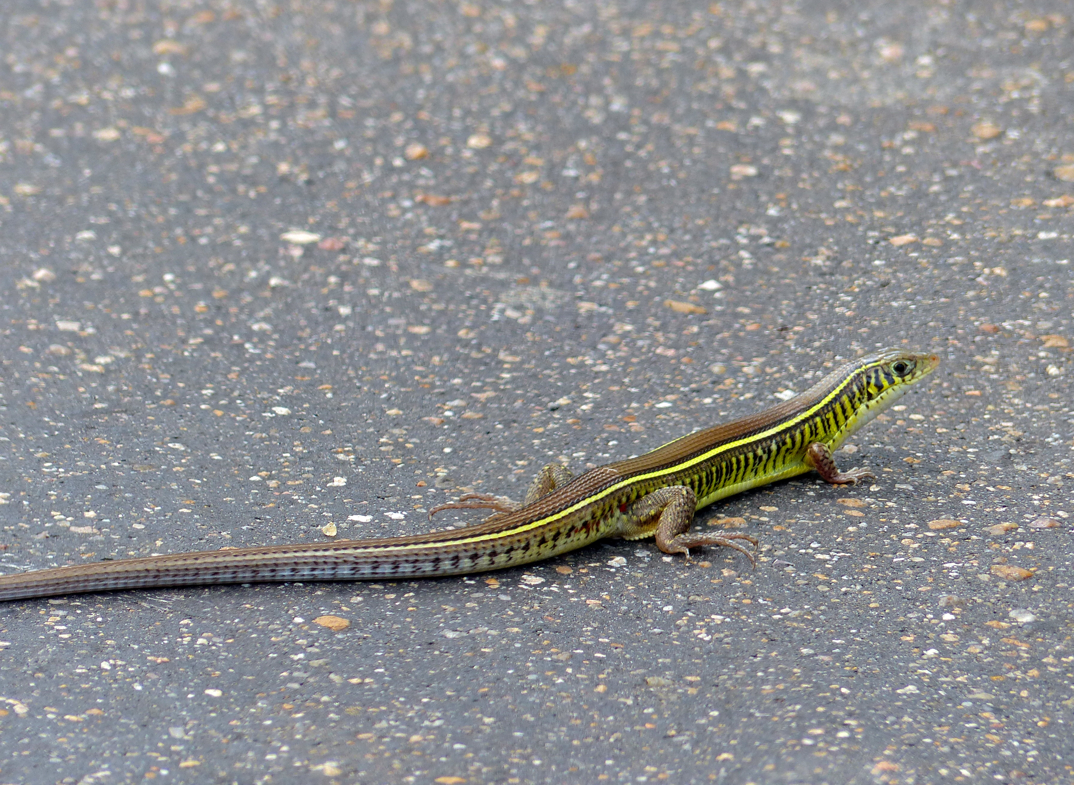 H7 Road East of Orpen, Kruger NP, SOUTH AFRICA